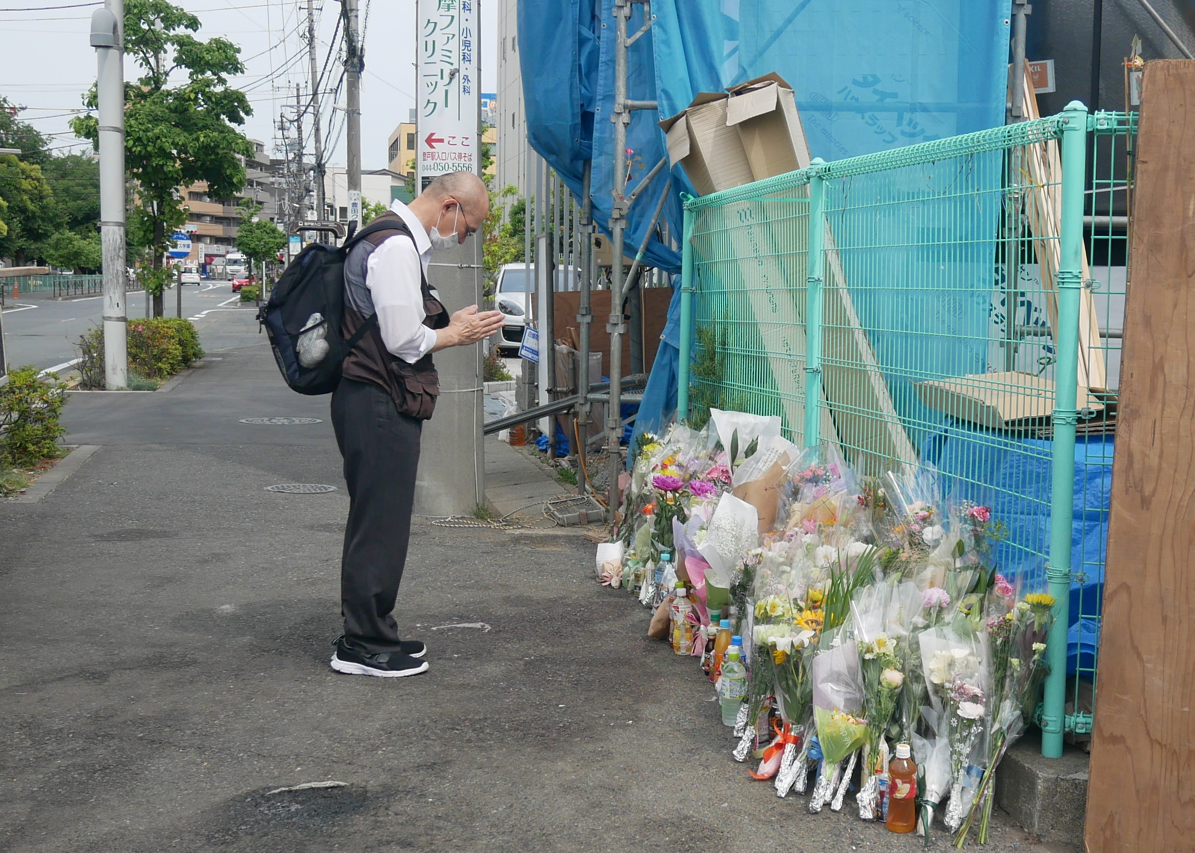 Kawasaki stabbings makeshift flower and snack memorial (川崎殺傷事件現場、献花の様子) Panasonic Lumix DMC-GX7 Mark II